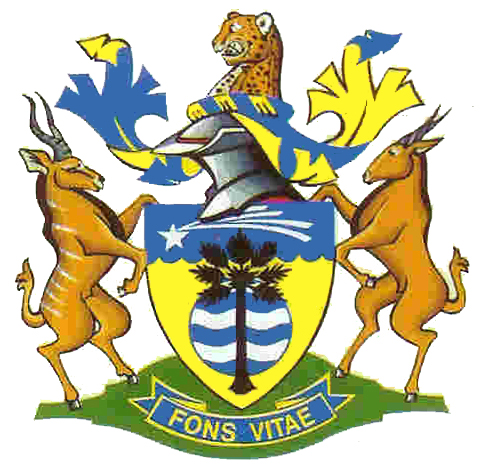 Coat of arms of Grootfontein, Namibia.